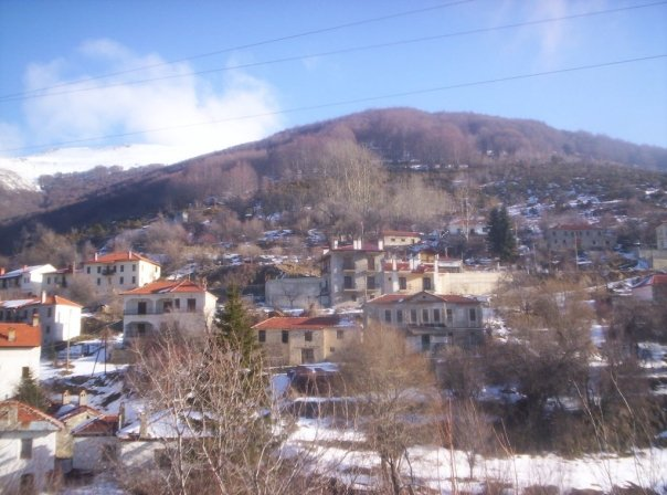 Village of Simos Ioanidis/Mateshnica, Greece